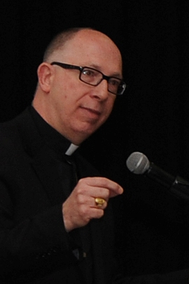 Bishop Michael Jackels, Catholic Diocese of Wichita, speaks to McConnell AFB airmen at the 2013 McConnell National Prayer Breakfast March 7, 2013, McConnell Air Force Base, Kan. Jackels spoke on the importance of unity, tradition and gathering together. Approximately 300 people attended the annual event. (U.S. Air Force photo/Senior Airman Katrina M. Brisbin)